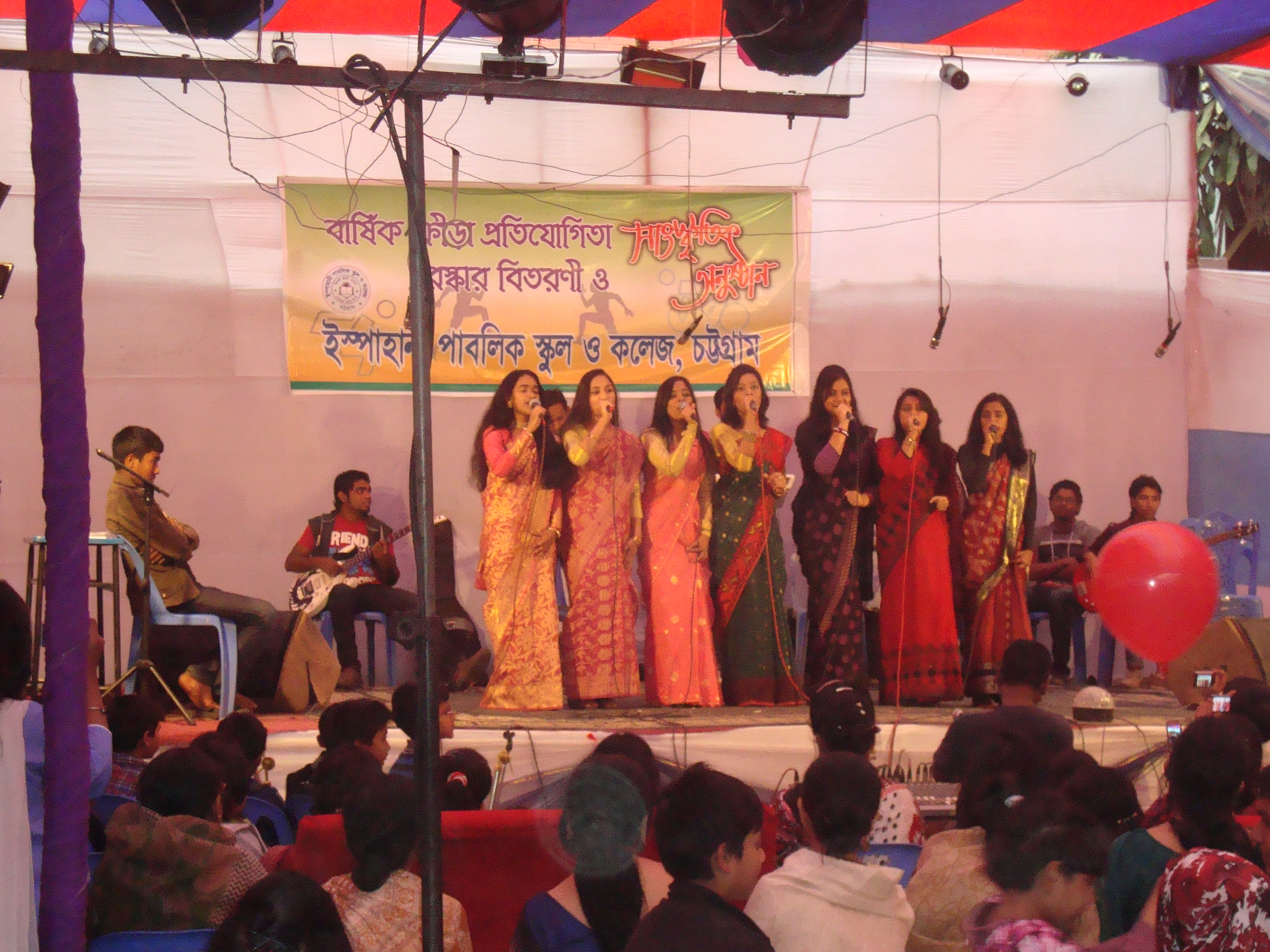 IPSC Cultural Function 2013